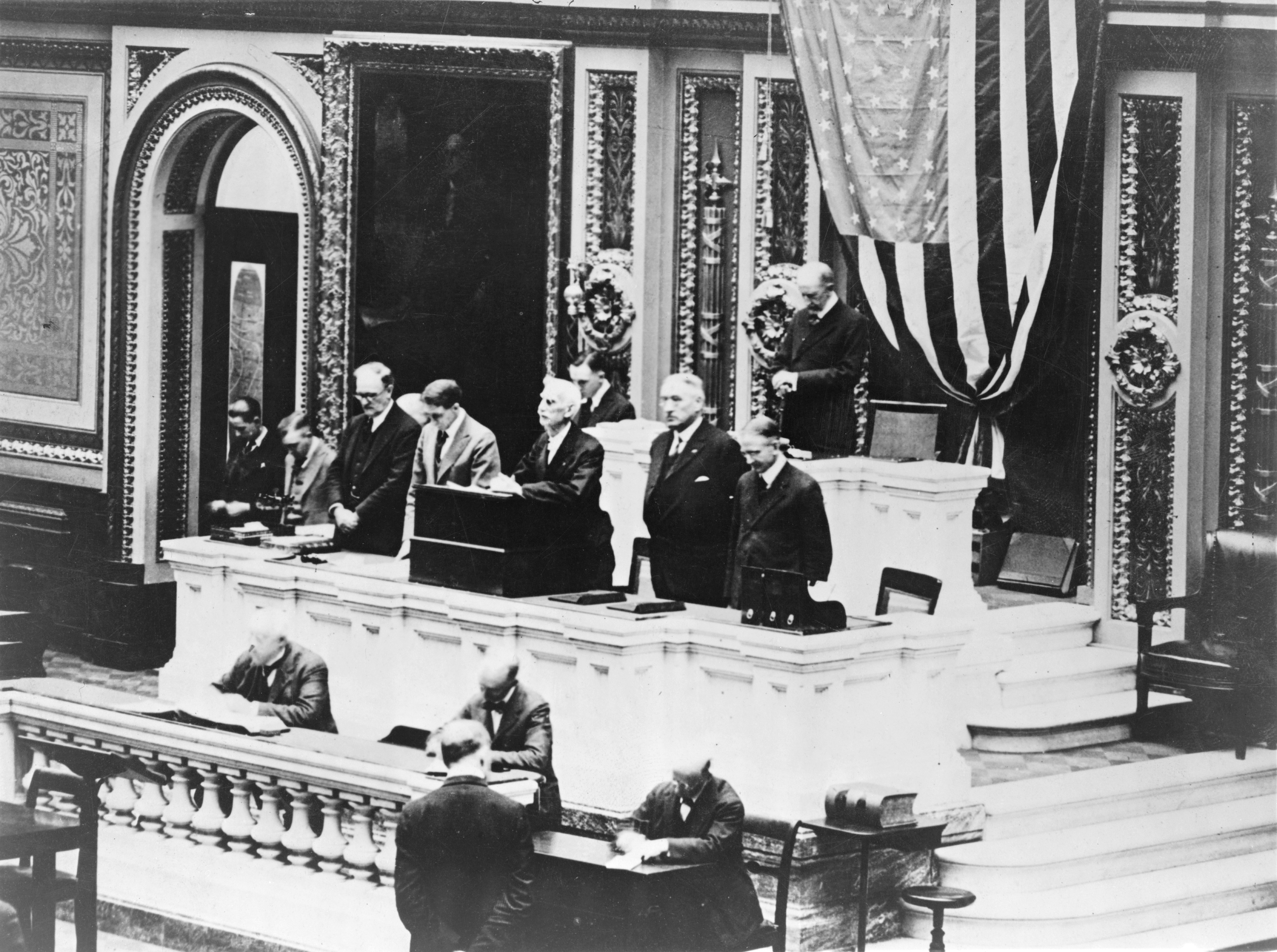 Found at with description: All hope for president's returning healthy. Rev. Henry N. Couden, chaplain of the House of Representatives, offering prayer in the House for the speedy recovery of President Wilson, 1919